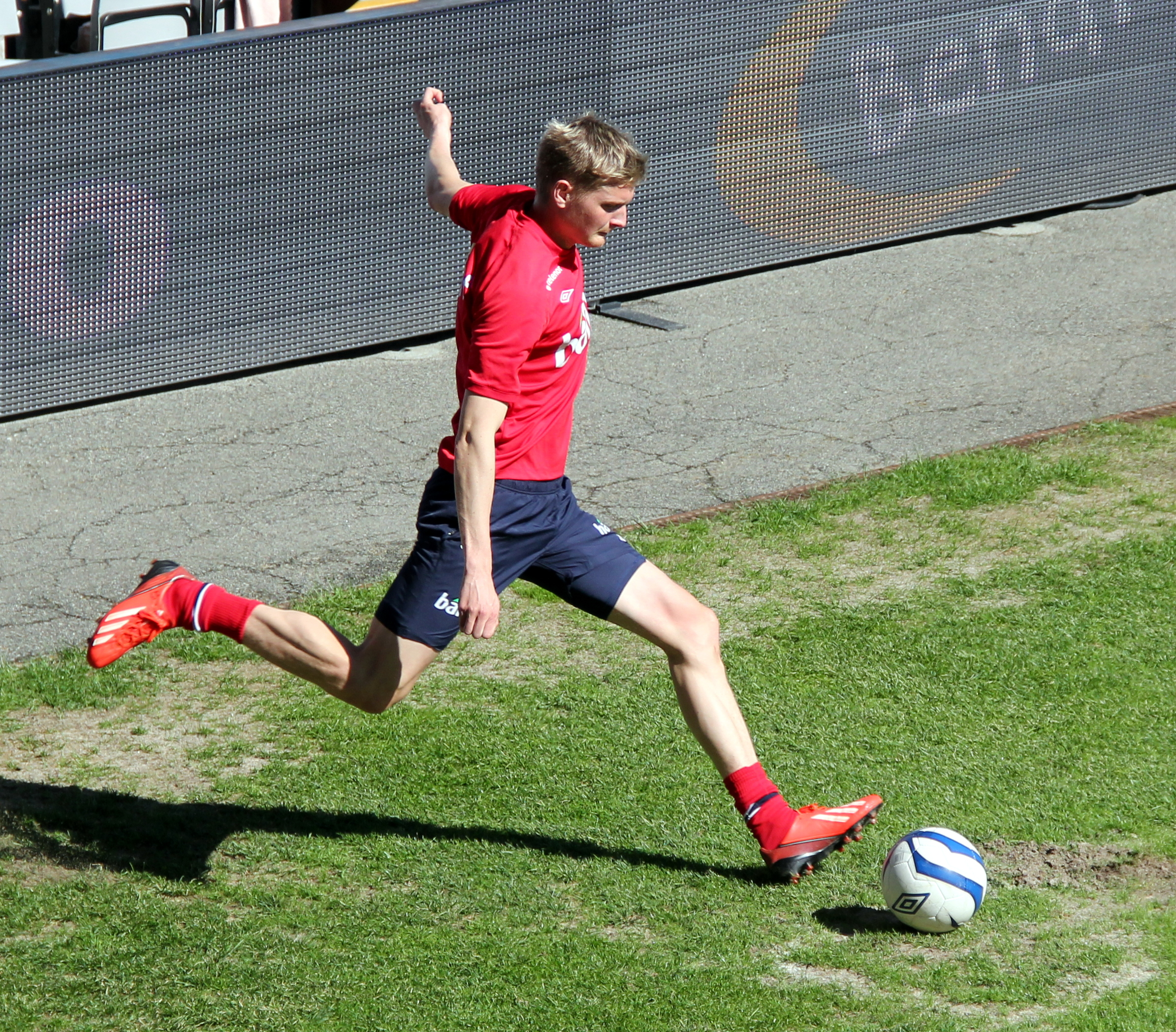 Eirik Huseklepp, footballer for Brann and Norway national team